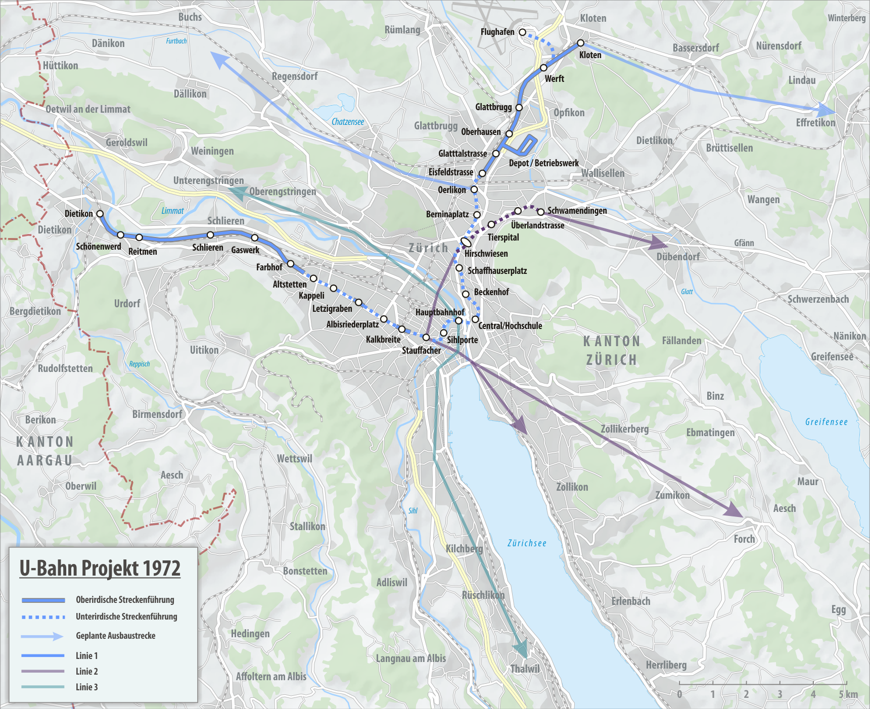 Subway project in Zurich (1972)